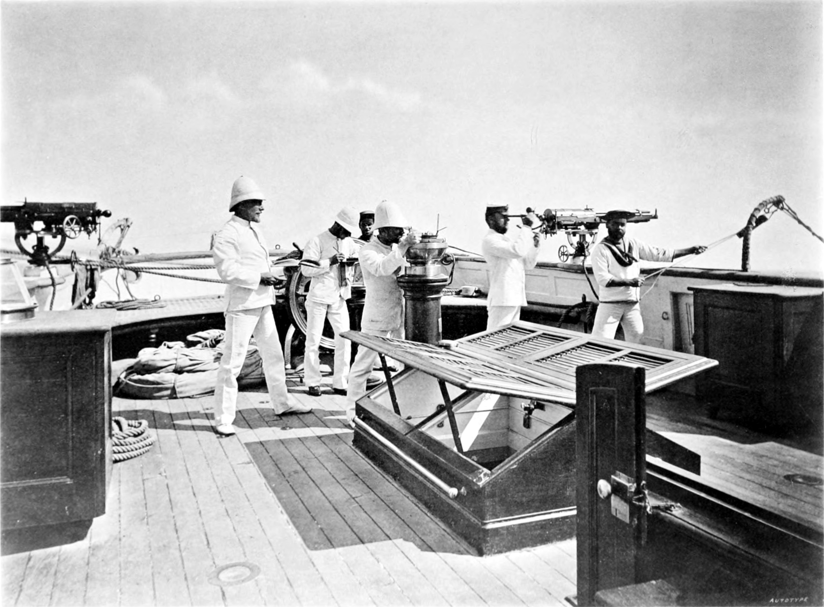 The Voyage homeward from British New Guinea on board HMS Dart "(on the Job)". Gatling guns are seen mounted on the ship's sides.